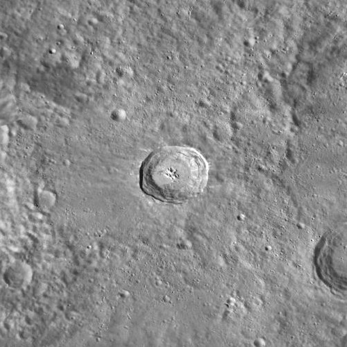 Fonteyn crater, on Mercury. MESSENGER Wide Angle Camera mosaic. Image is approximately 164 km wide.